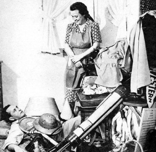 Photo of Jim and Marian Jordan as Fibber McGee and Molly. Fibber's opening the closet and everything falling out was a long-running joke on the radio program. While the sounds heard on the air which represented the closet falling out were actually done by a sound effects man, the many listeners wanted a visual picture of it. The photo was done to please the show's legion of fans.